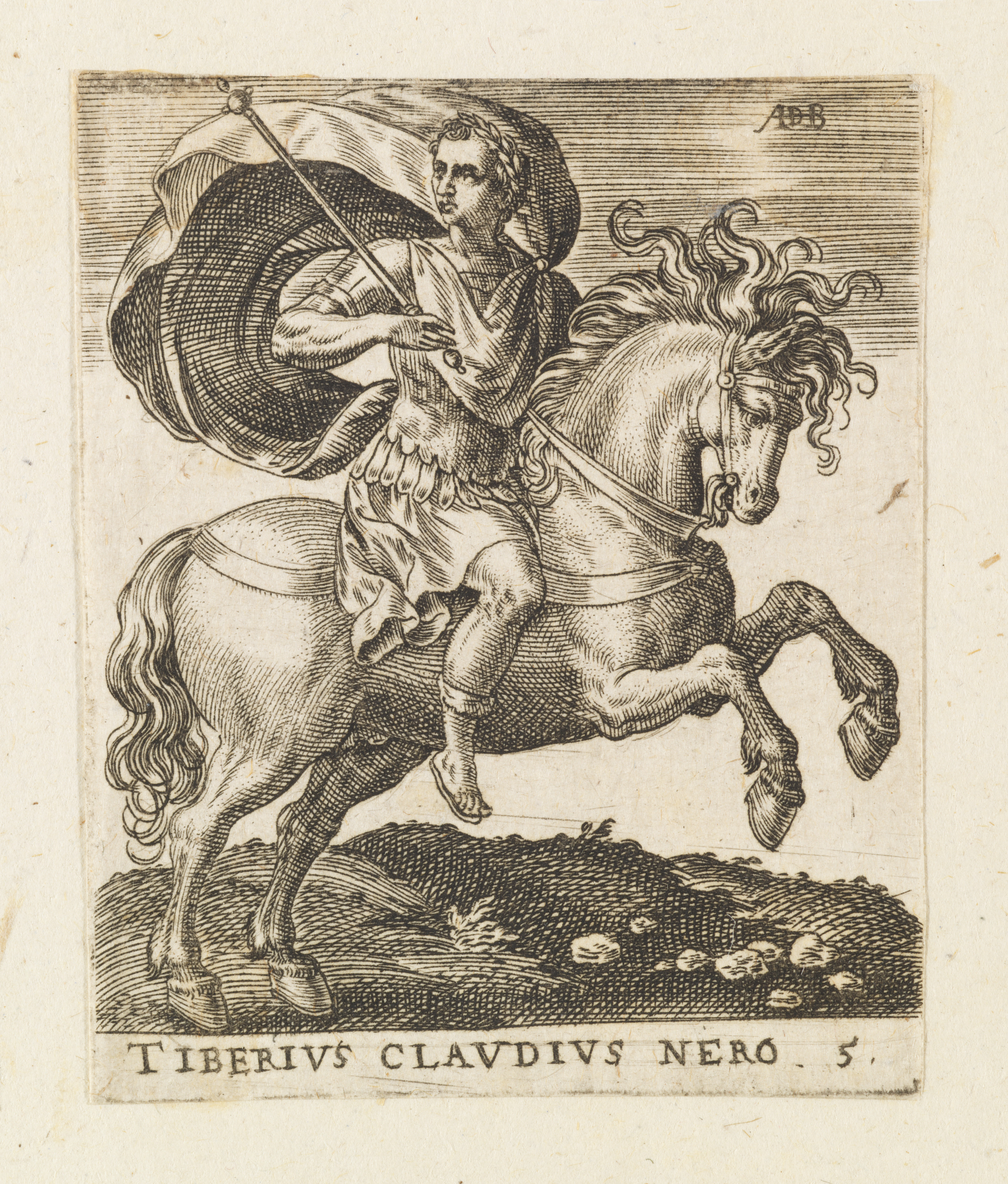 Print; Prints